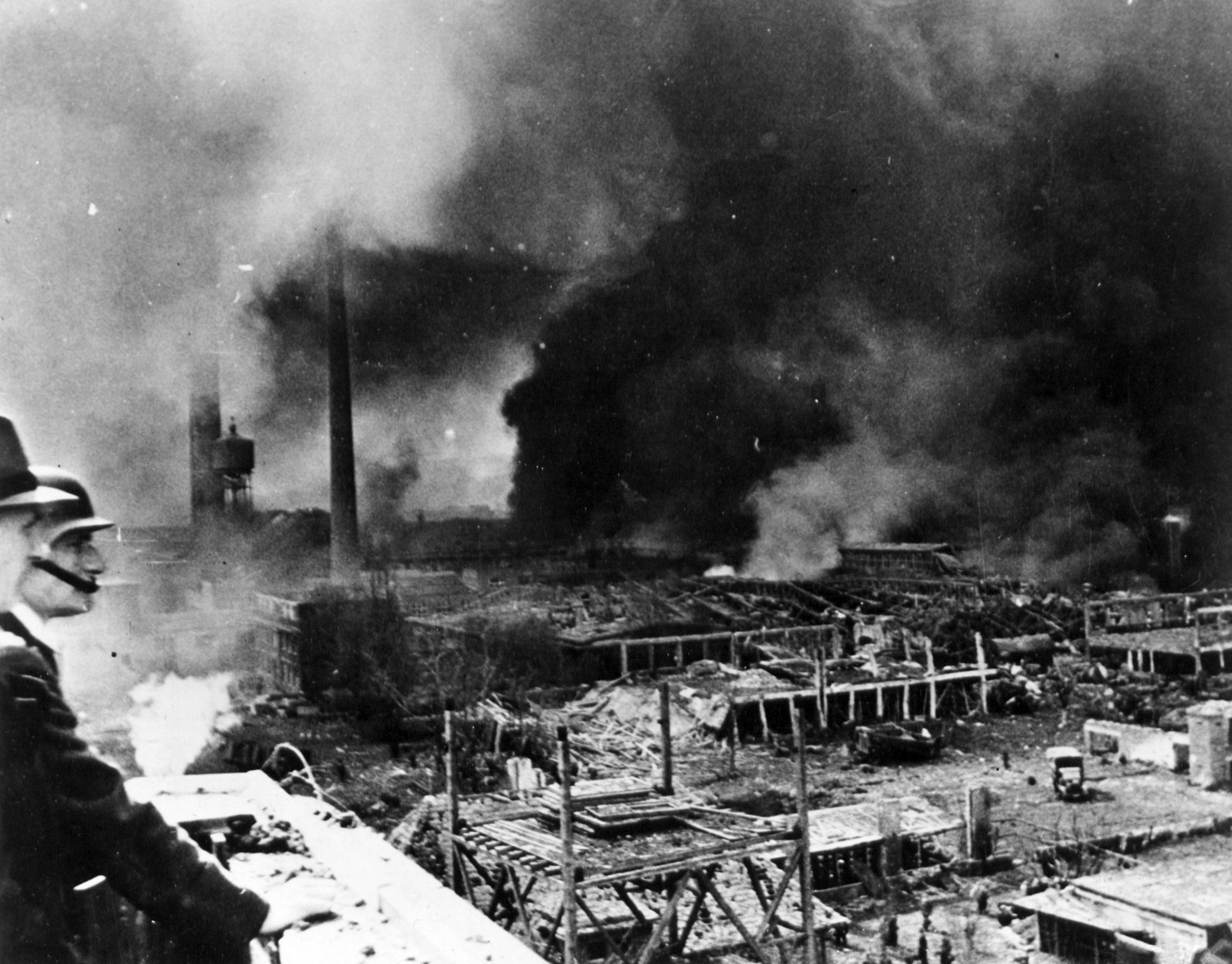 German soldier and a civilian observing fires ravaging Fieseler aircraft plant at Bettenhausen, a suburb of Kassel, Germany, after bombing by R.A.F. and the U.S. Eighth Air Force.